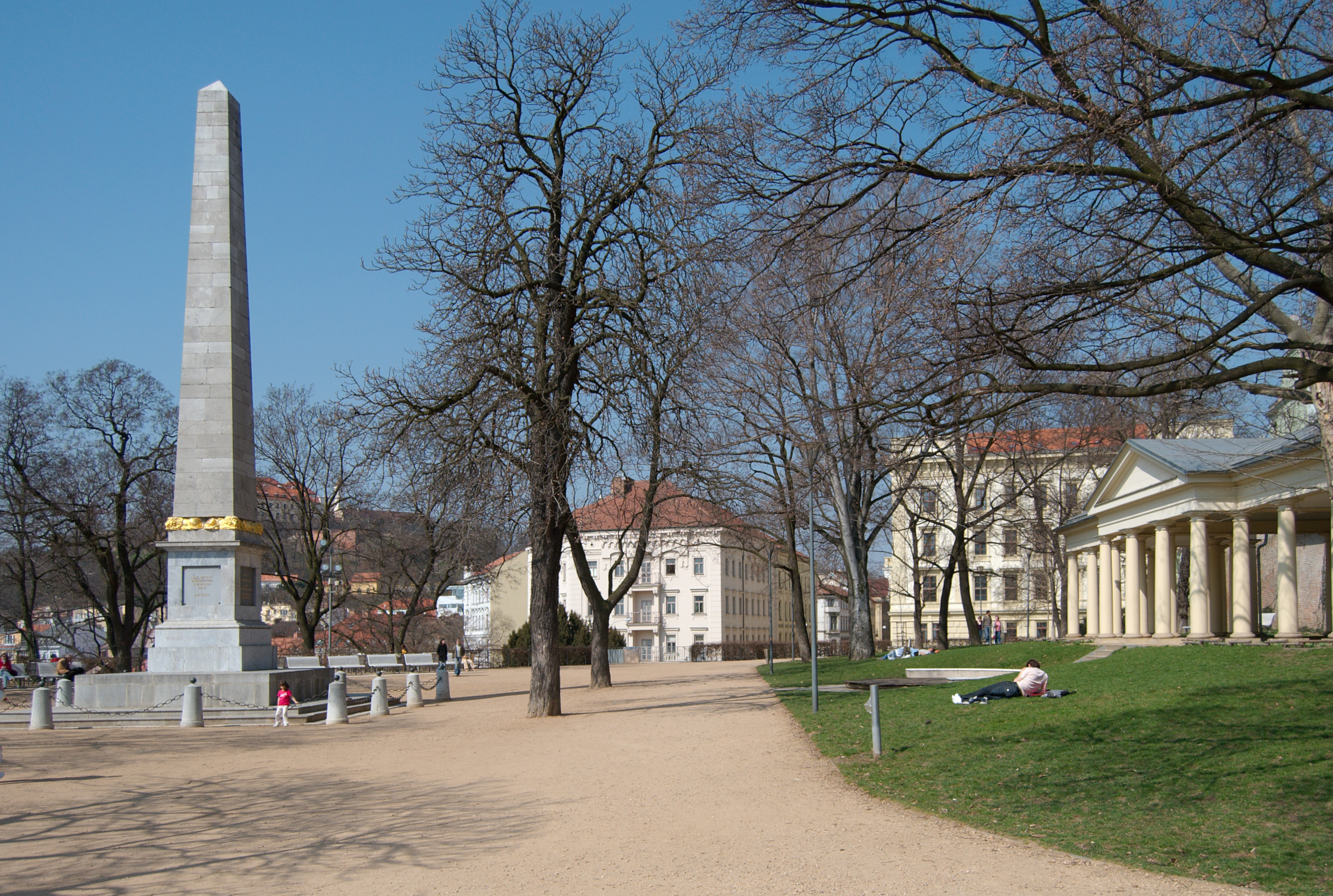 Denis gardens in Brno City